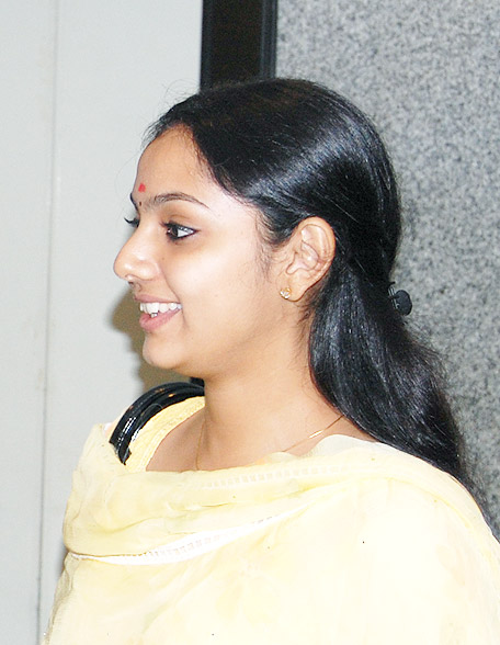 Samvrutha Sunil